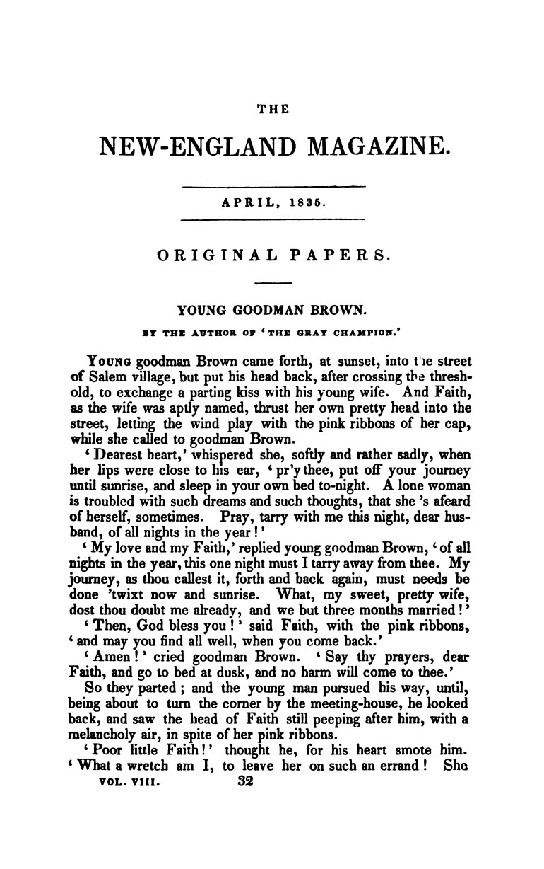 Opening page of The New-England Magazine from April 1835, which includes the first appearance of the tale "Young Goodman Brown" by Nathaniel Hawthorne (1804-1864). The story was published anonymously with Hawthorne credited only as "by the author of 'The Gray Champion'." Scanned from the original copy at The University of Michigan.